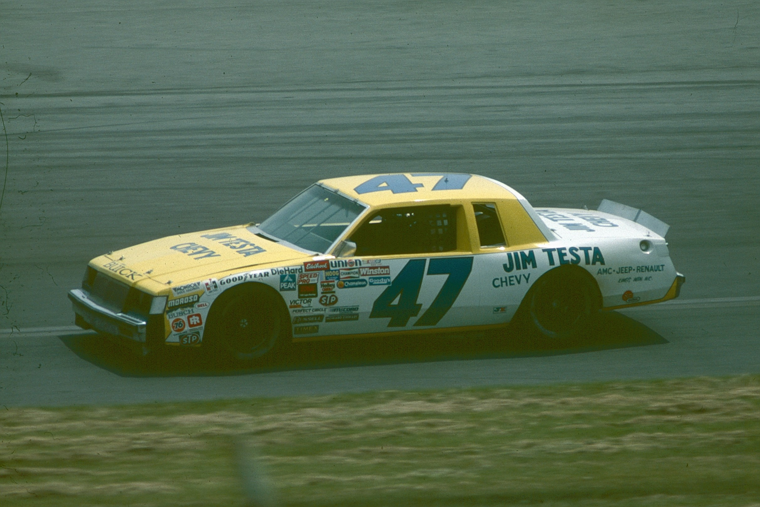 NASCAR driver Ron Bouchard at Pocono Raceway in 1985. Photo by Ted Van Pelt.